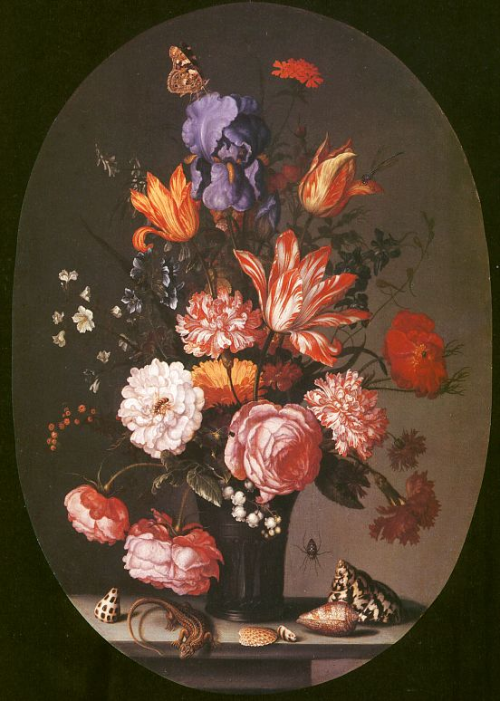 Flowers in a Glass Vase